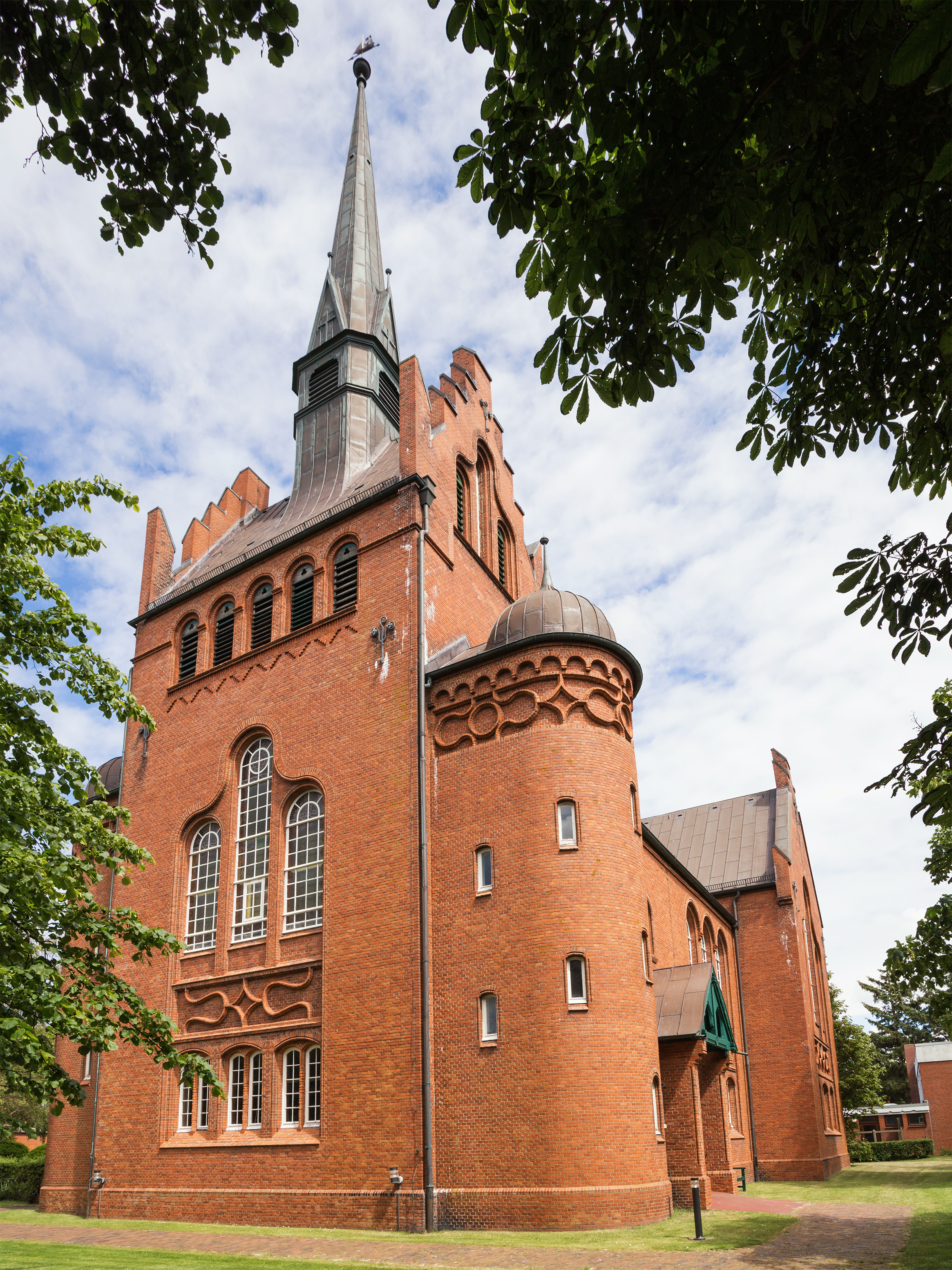 Borkum, Reformed Church